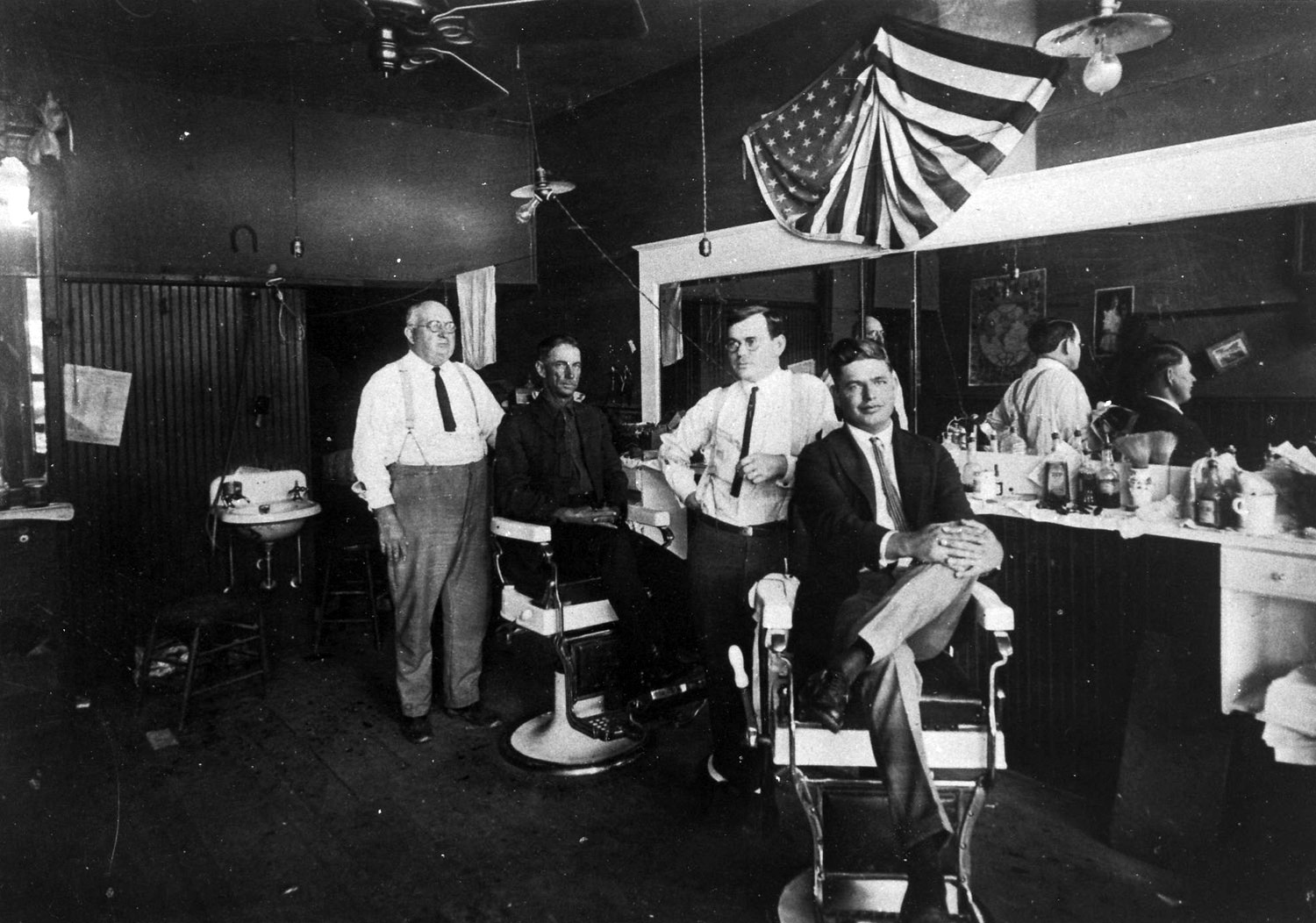 Barber Shop in Richardson, Texas, circa 1920. This was scanned by the uploader from the Richardson Public Library local history archives, courtesy of the Richardson Historical and Genealogical Society.